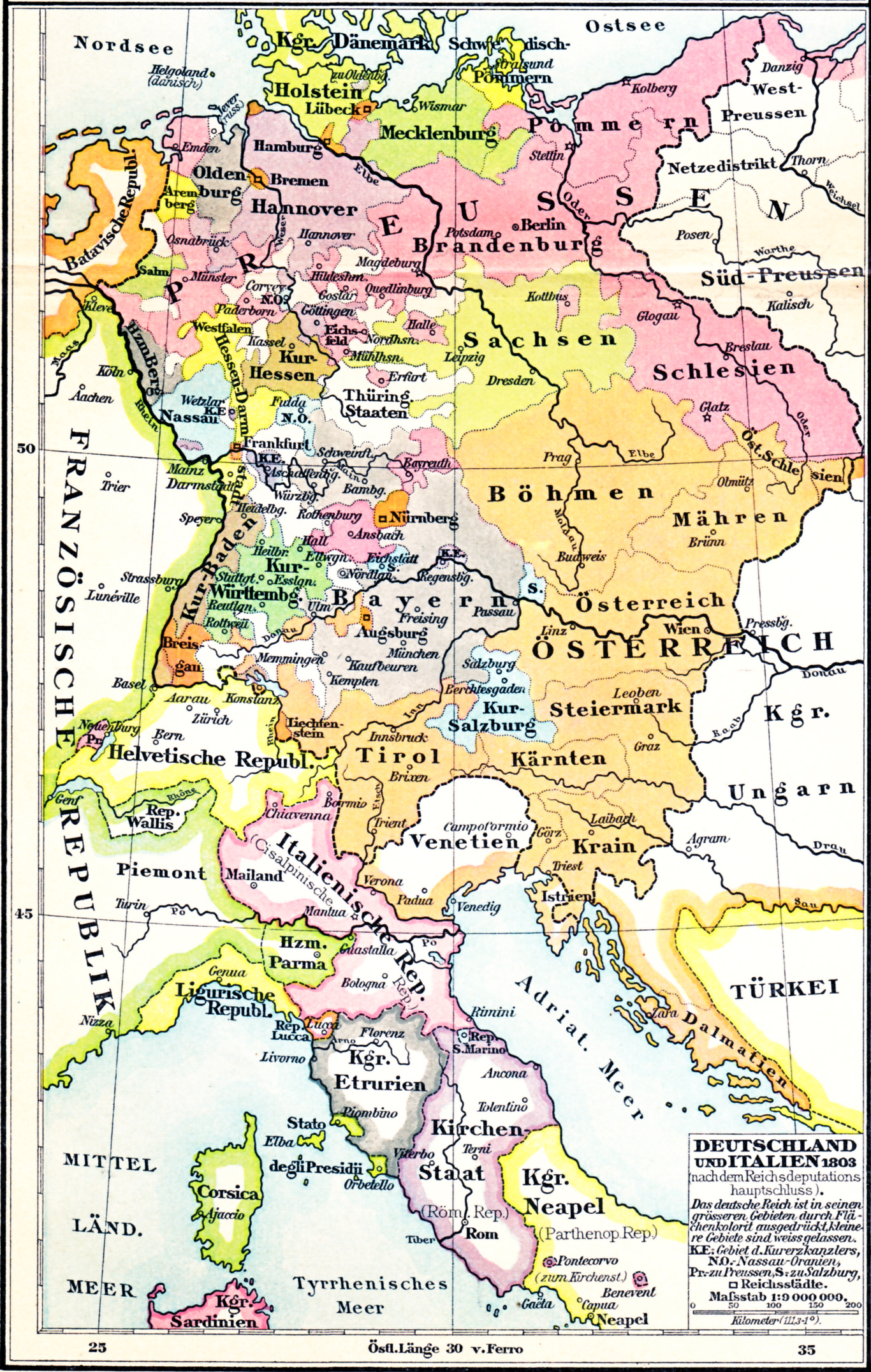 Map of Germany and Italy 1803